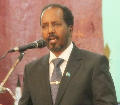 President of Somalia Hassan Sheikh Mohamud (Gurguurte) speaking with international delegations at his inauguration ceremony in Mogadishu, September 2012.